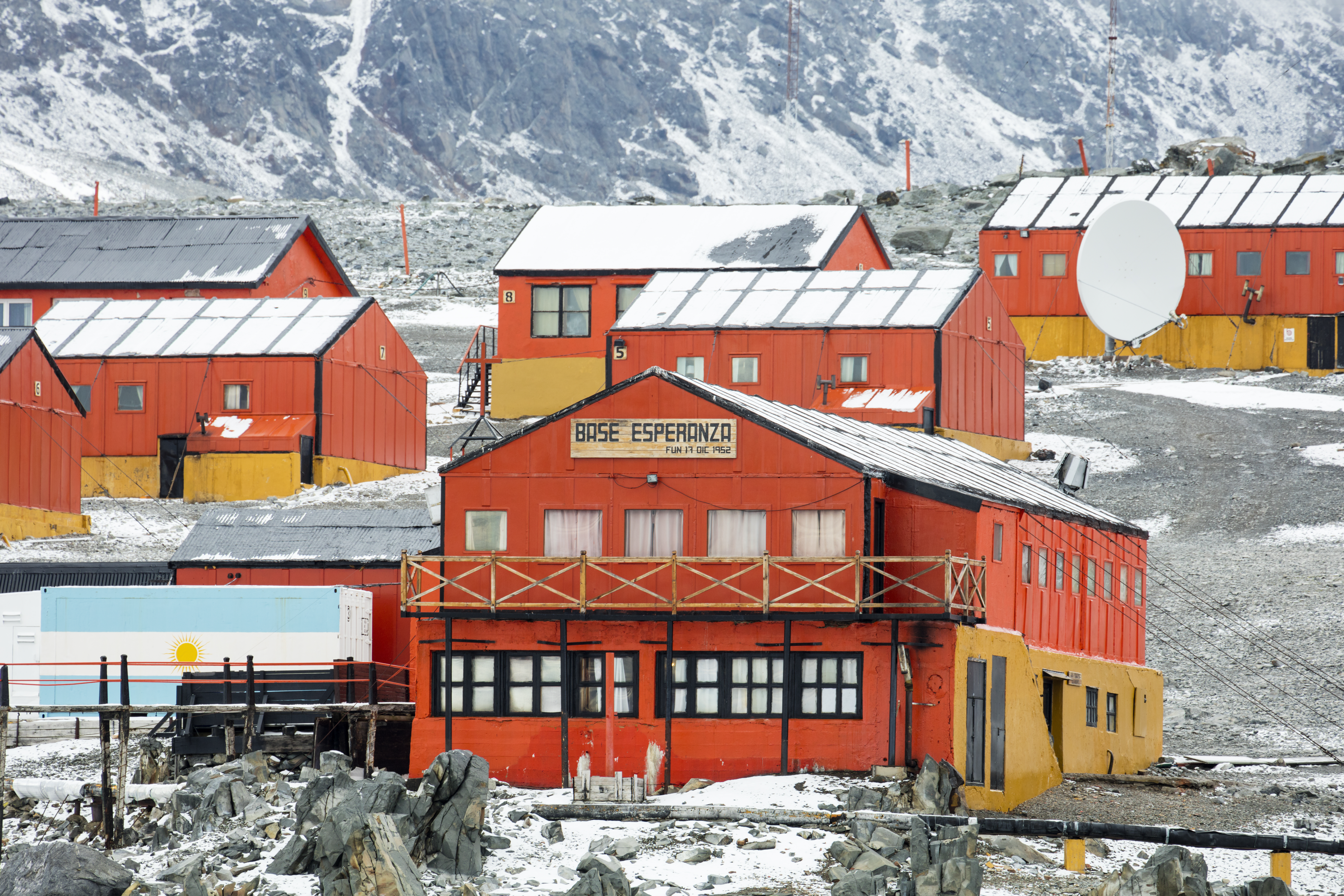 Esperanza Station, Hope Bay, Trinity Peninsula, on the northernmost tip of the Antarctic Peninsula